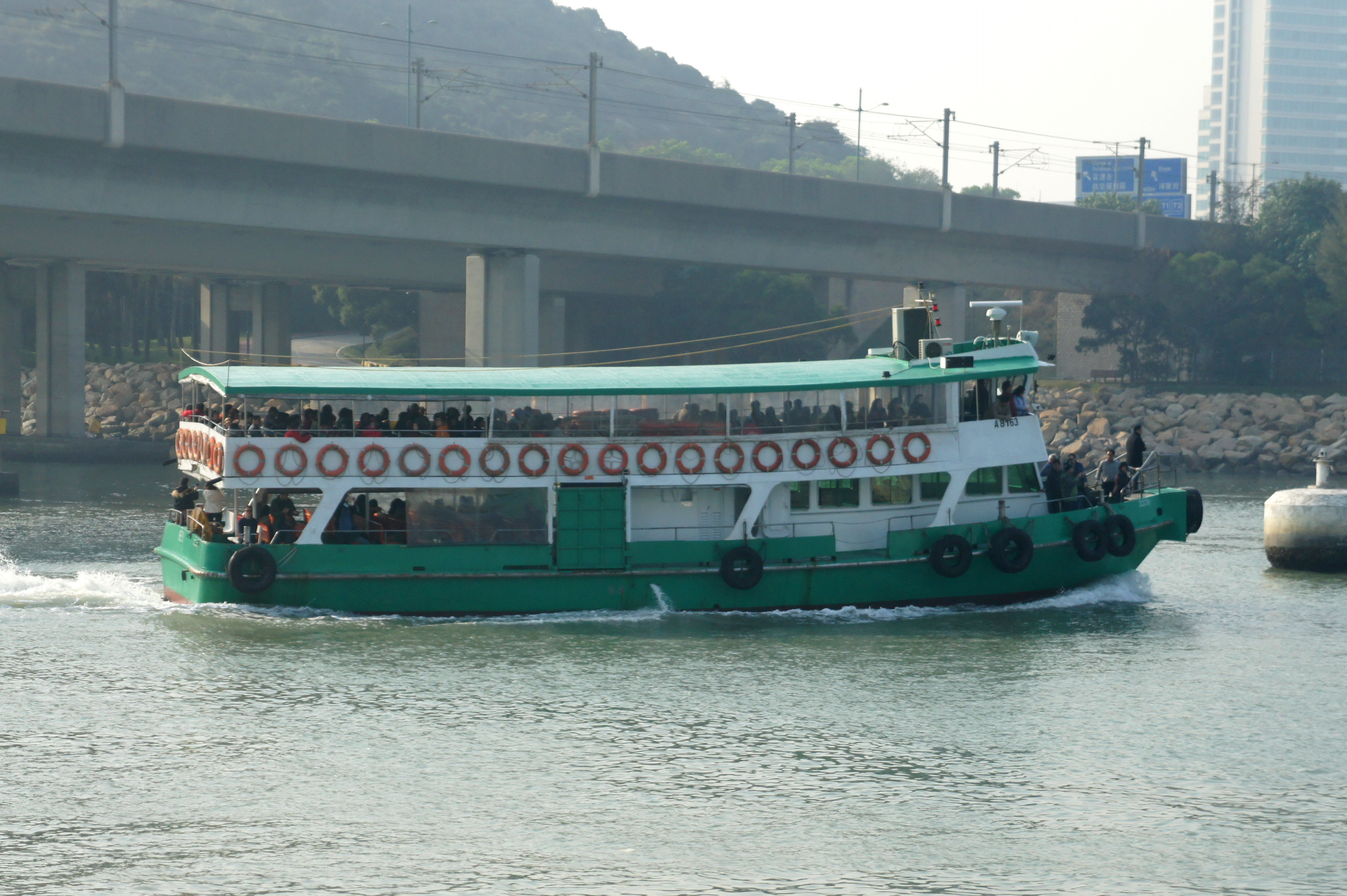 A Fortune Ferry (A8163) at Tung Chung, Hong Kong.